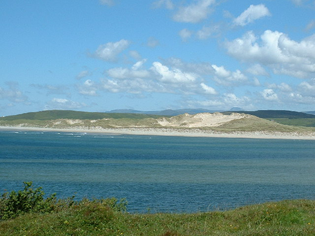 Mouth of the Gweebarra Estuary. Looking north to a headland over-run by sand dunes